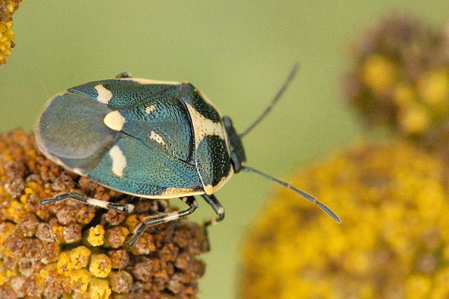 Picture taken in Commanster, Belgian High Ardennes . Species: Eurydema oleracea